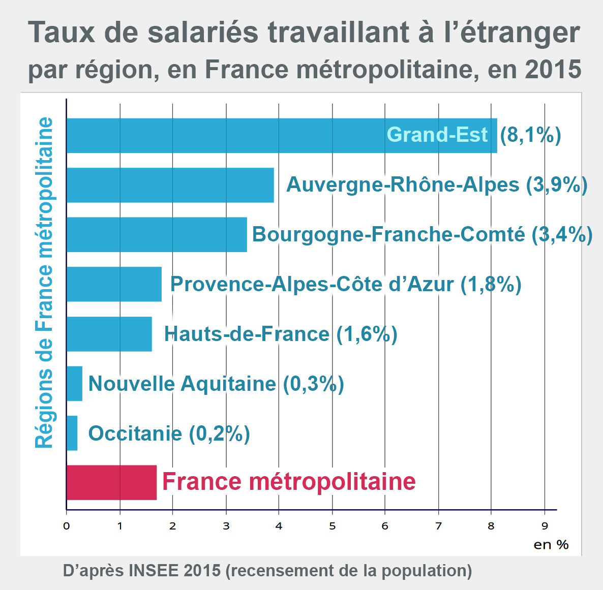 Rate of cross-border worker in metropolitan France, by major administrative regions in 2015 (and in red : average for France)